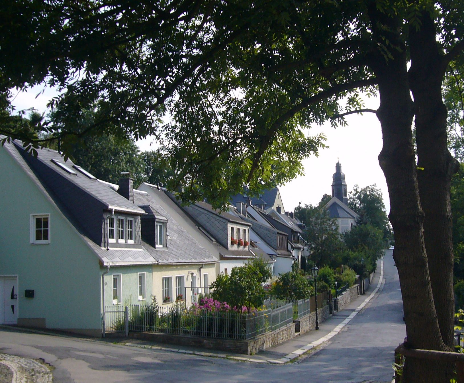 Mariengasse, Heilig-Kreuz-Kirche; Annaberg-Buchholz; Saxony; Germany